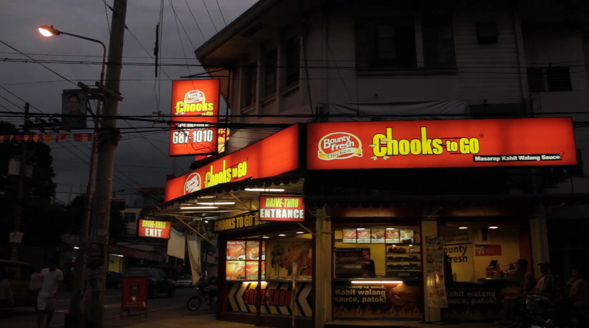 A Chooks-to-Go Outlet